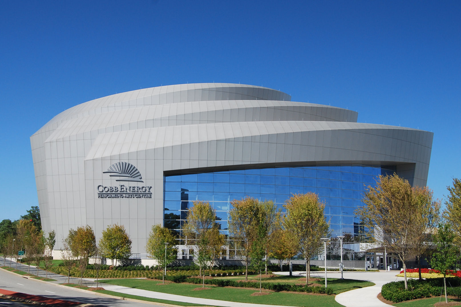 Cobb Energy Performing Arts Centre, located at Cumberland in Cobb County in metropolitan Atlanta, Georgia.